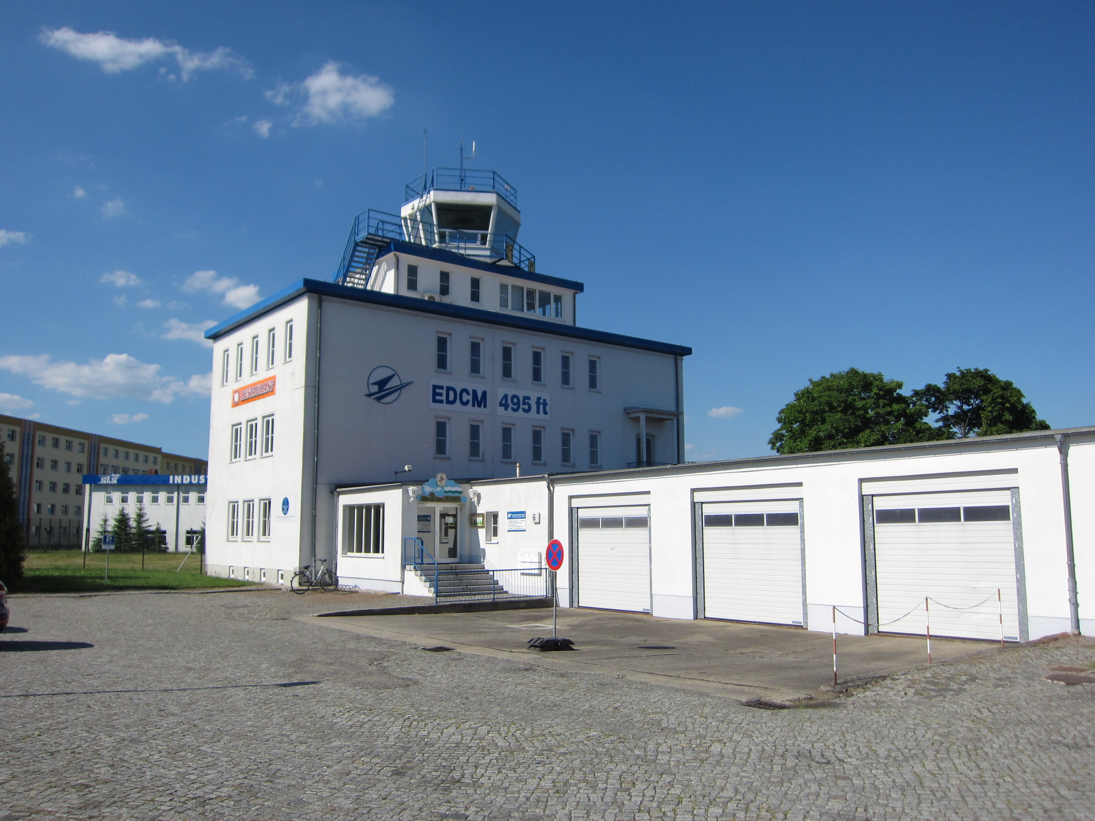 Tower of Kamenz airfield